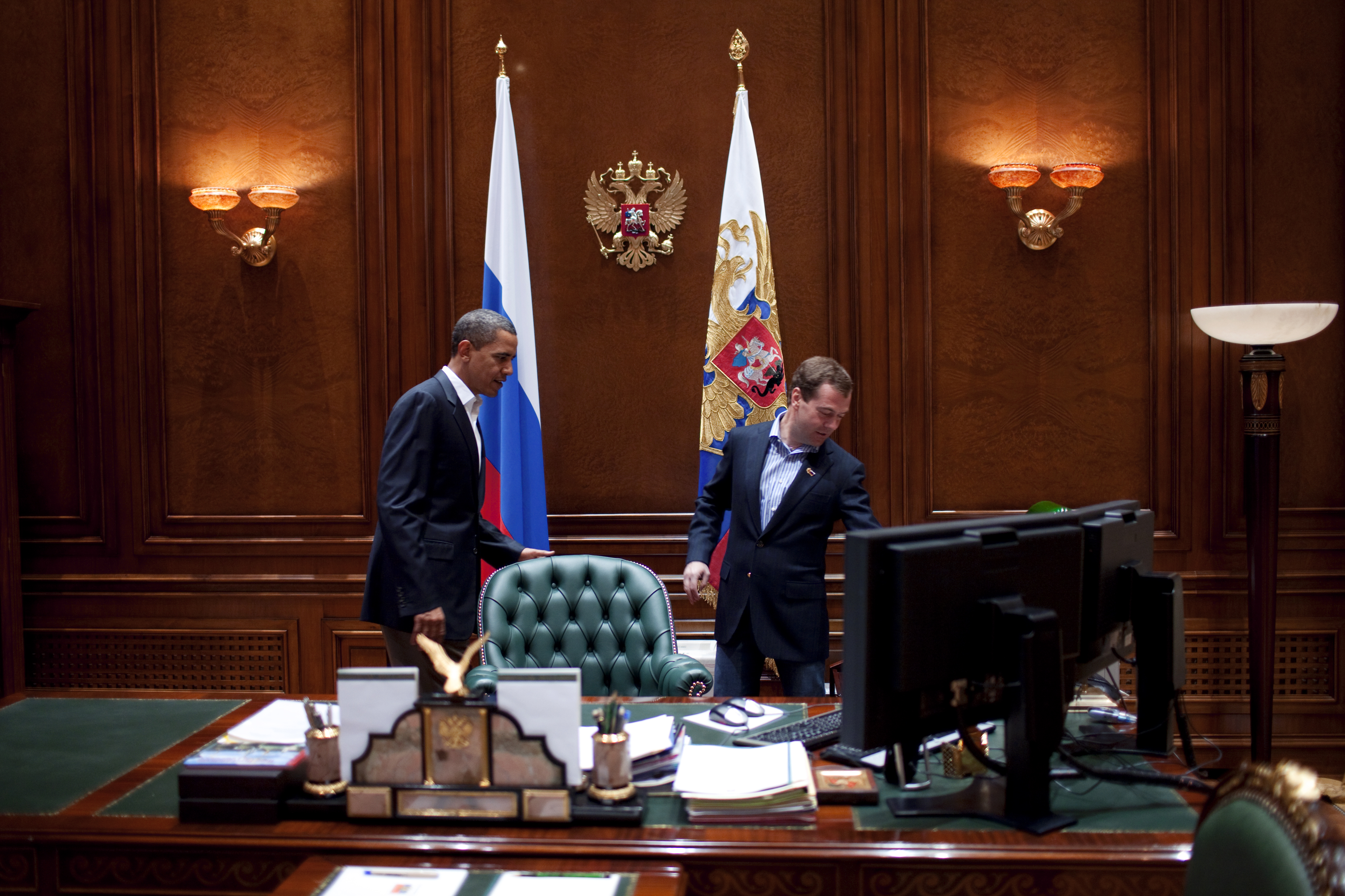 President Barack Obama gets a tour of Russian President Dmitry Medvedev's office at his dacha Gorki-9 outside Moscow, Russia, July 6, 2009.